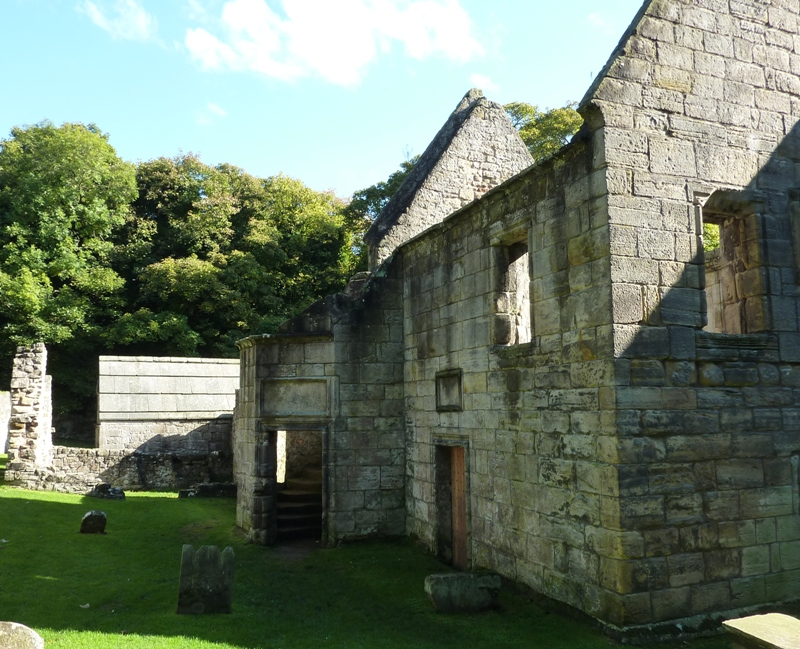 St Bridget's Kirk, Dalgety, Fife, Scotland. North west side, entrance to the Dunfermline Aisle.